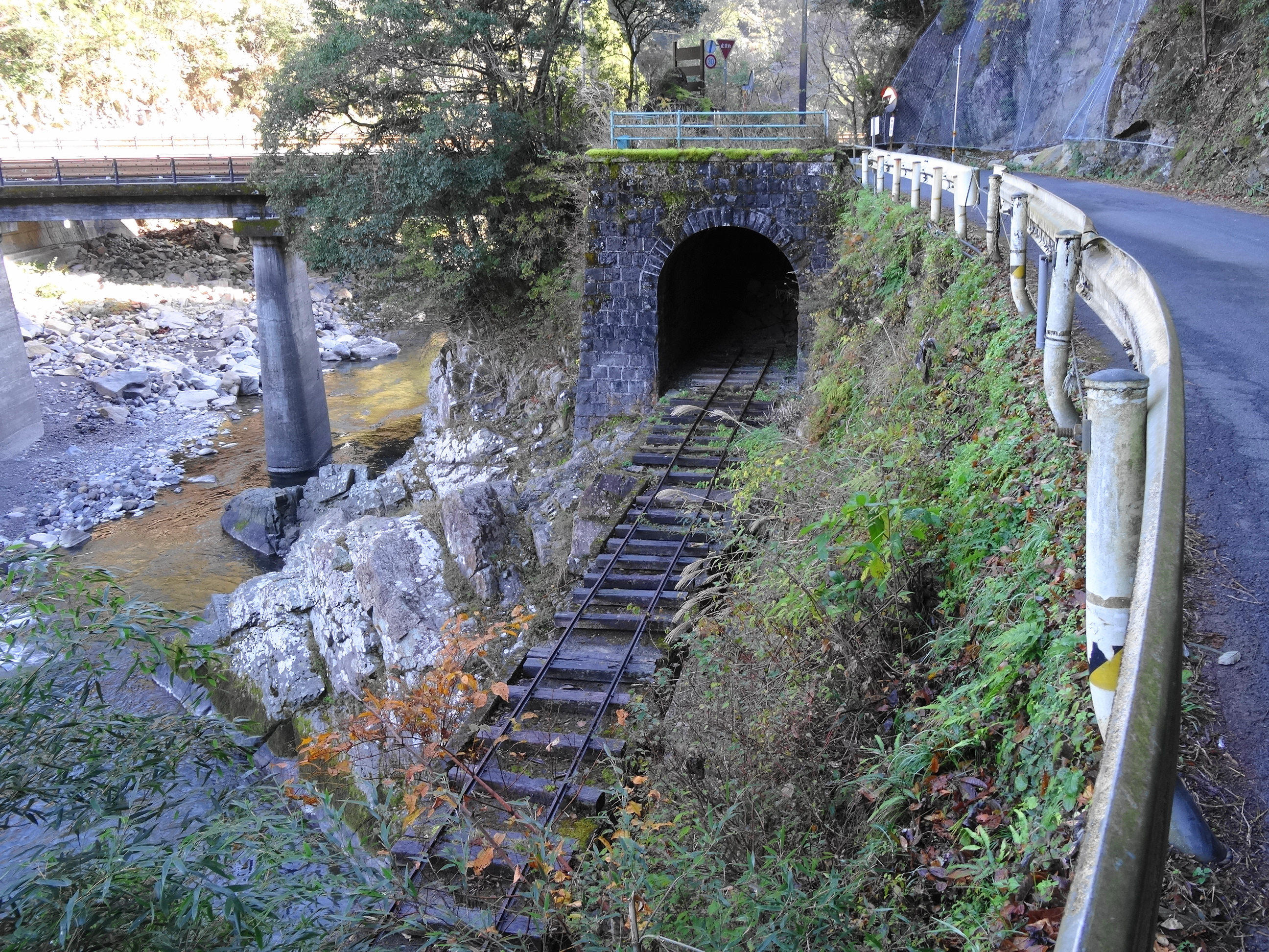 Disused railway of Yanase forest railway